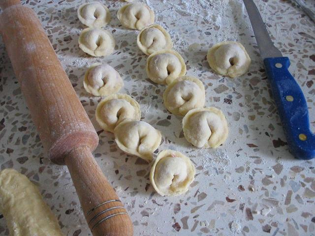 Preparation of pelmeni